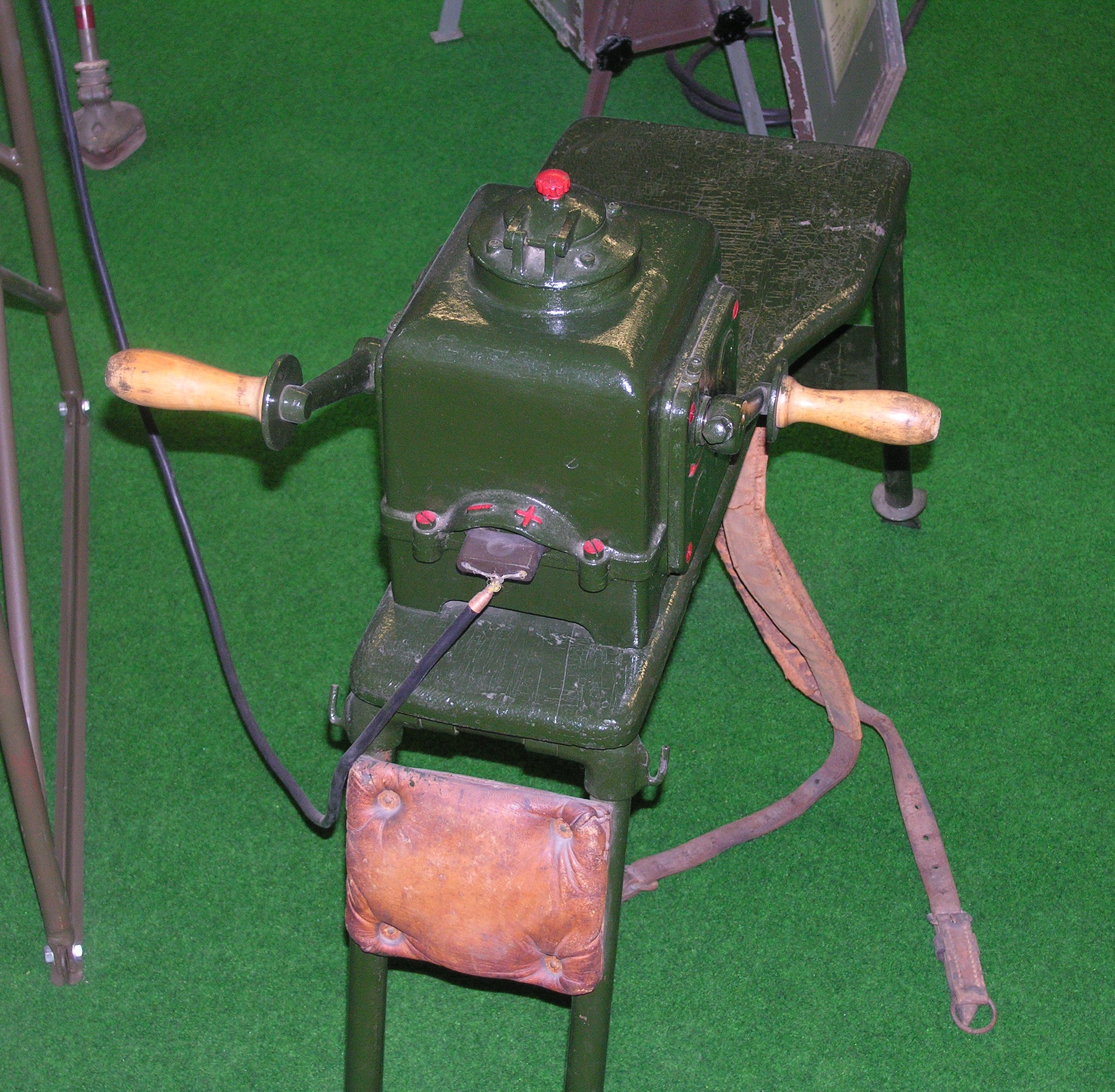 Military hand driven electric generator, on display in the Museum of Military Aviation, Dubendorf, Switzerland. It was used to power a portable military radio station.